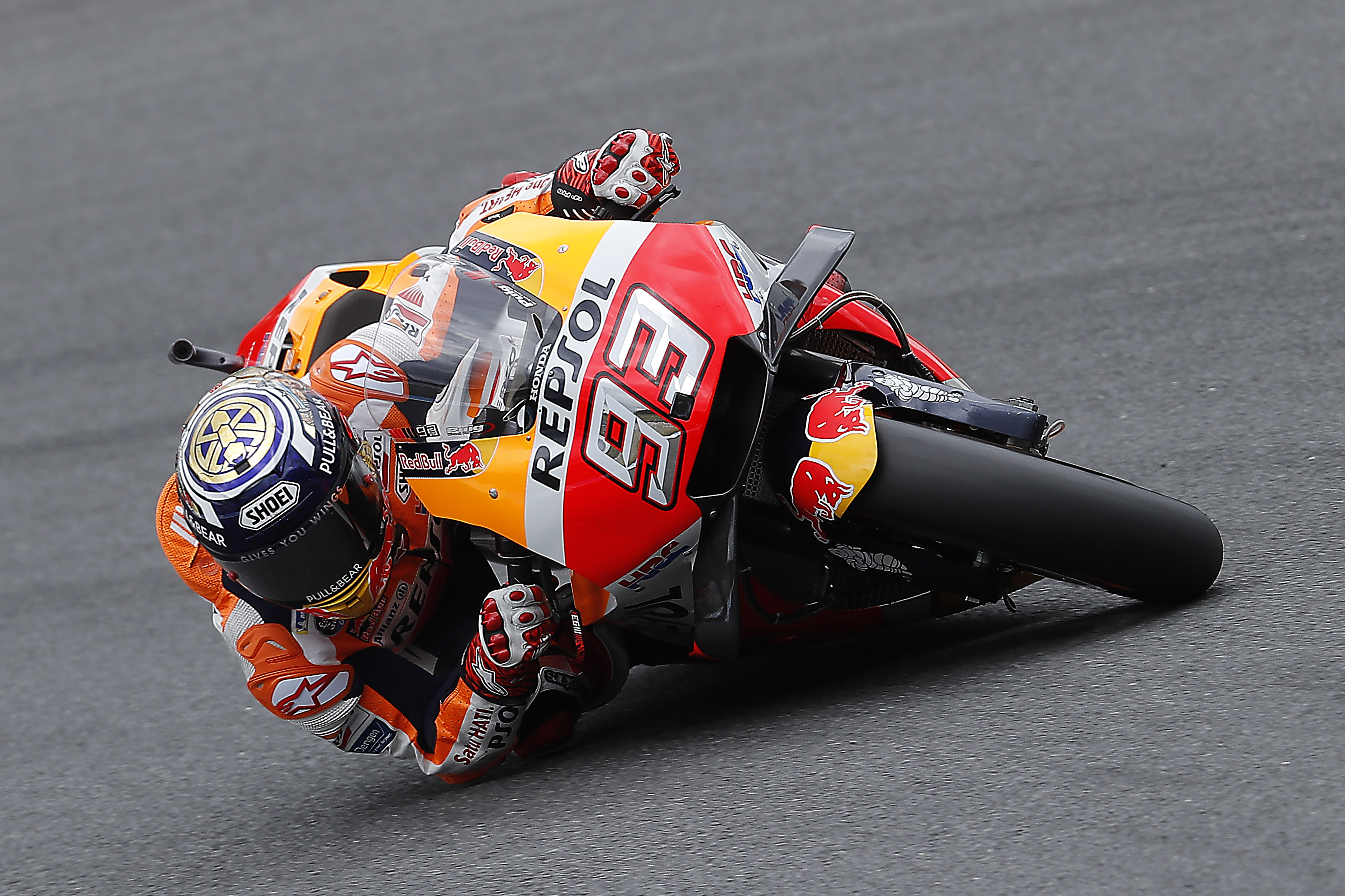 Marc Márquez at Gran Prix of Japan in 2018